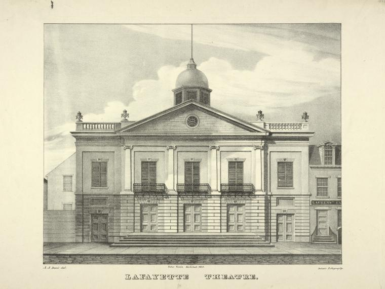 Lafayette Theatre; New York City; Peter Grain, architect; 1827